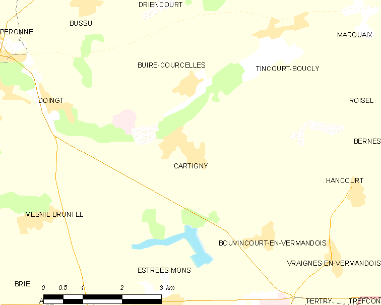 Map of French municipality Cartigny